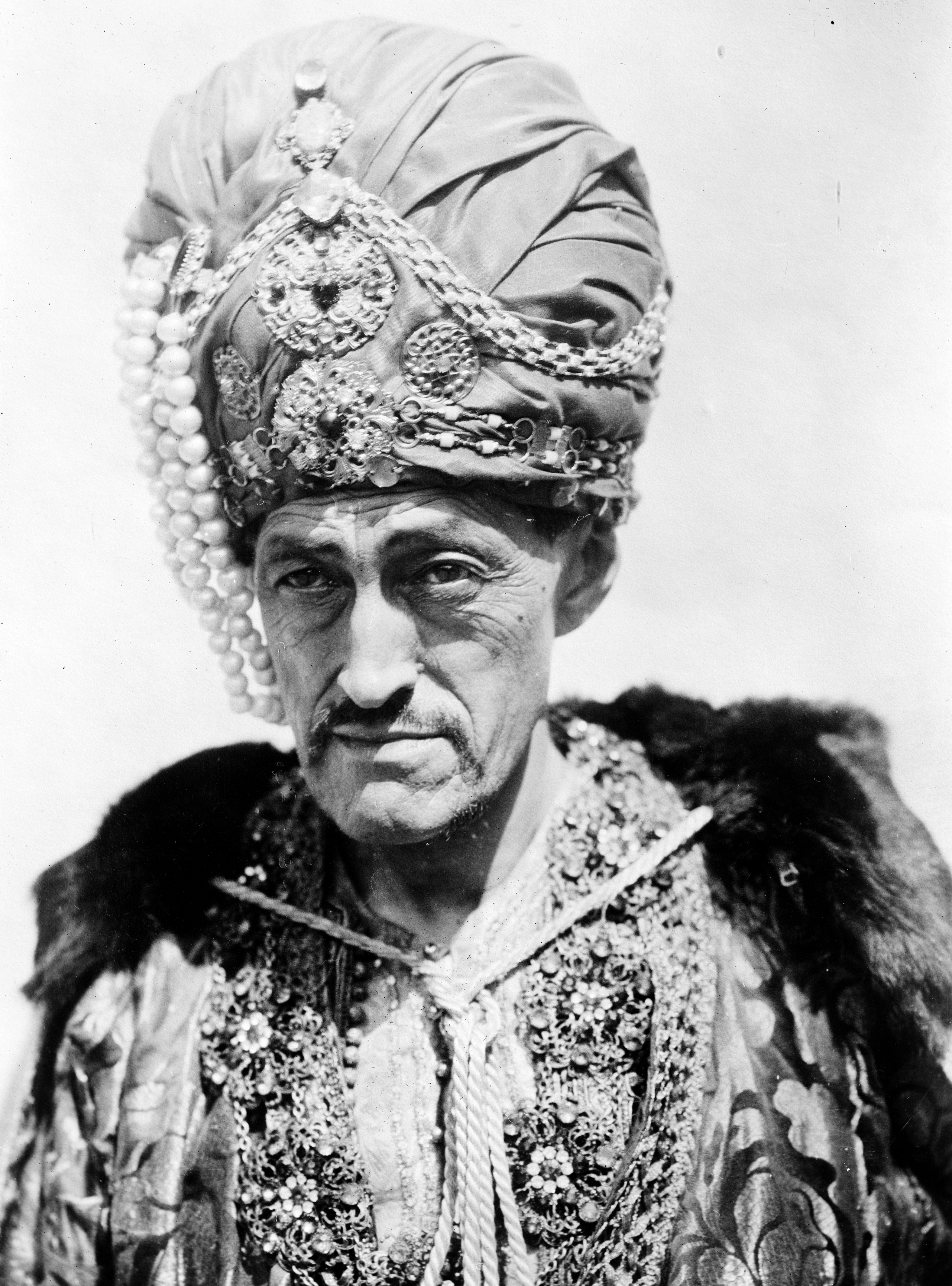 Japanese-born American poet and critic Sadakichi Hartmann (1867-1944) in the role of the court magician in the 1924 Douglas Fairbanks film "The Thief of Bagdad"